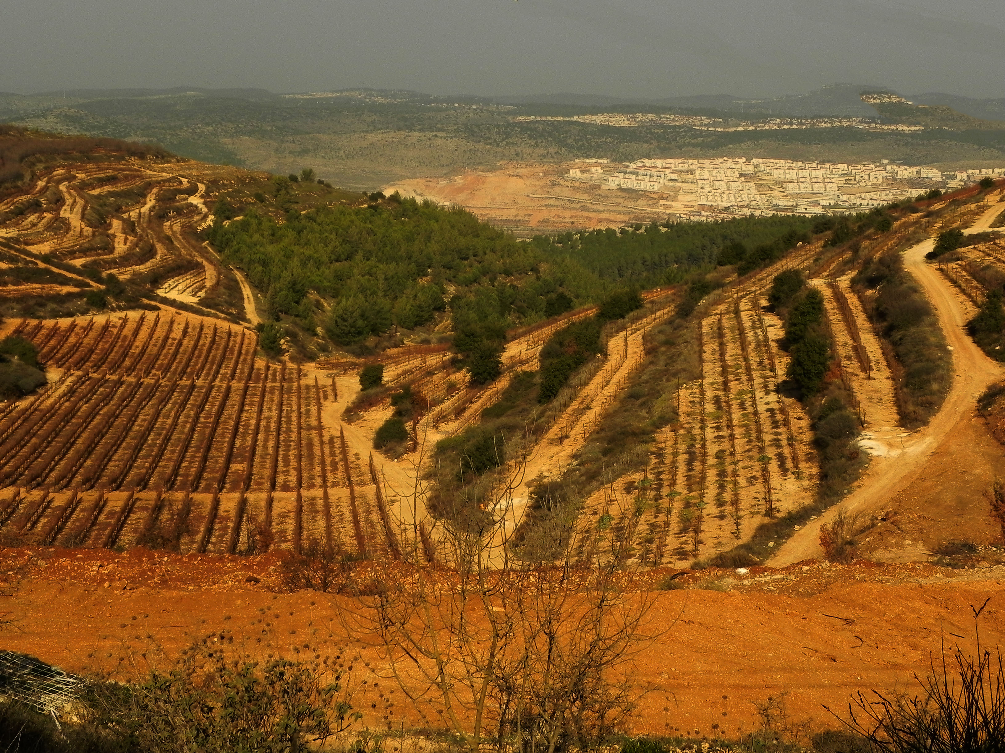 Geography of Palestine